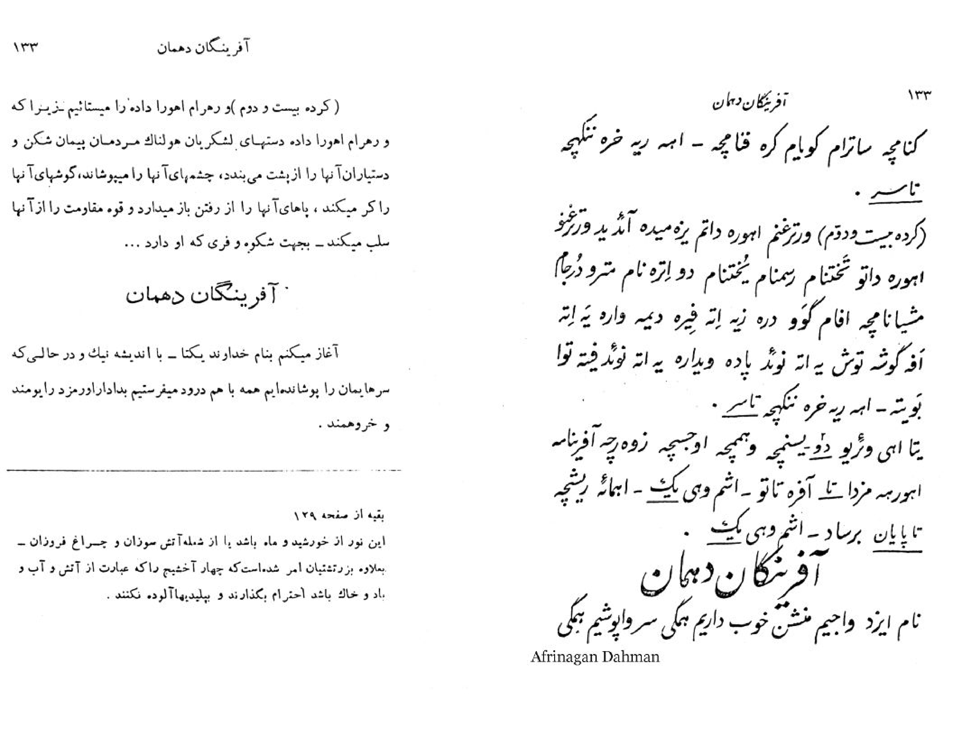 پاره ای از آفرینگان